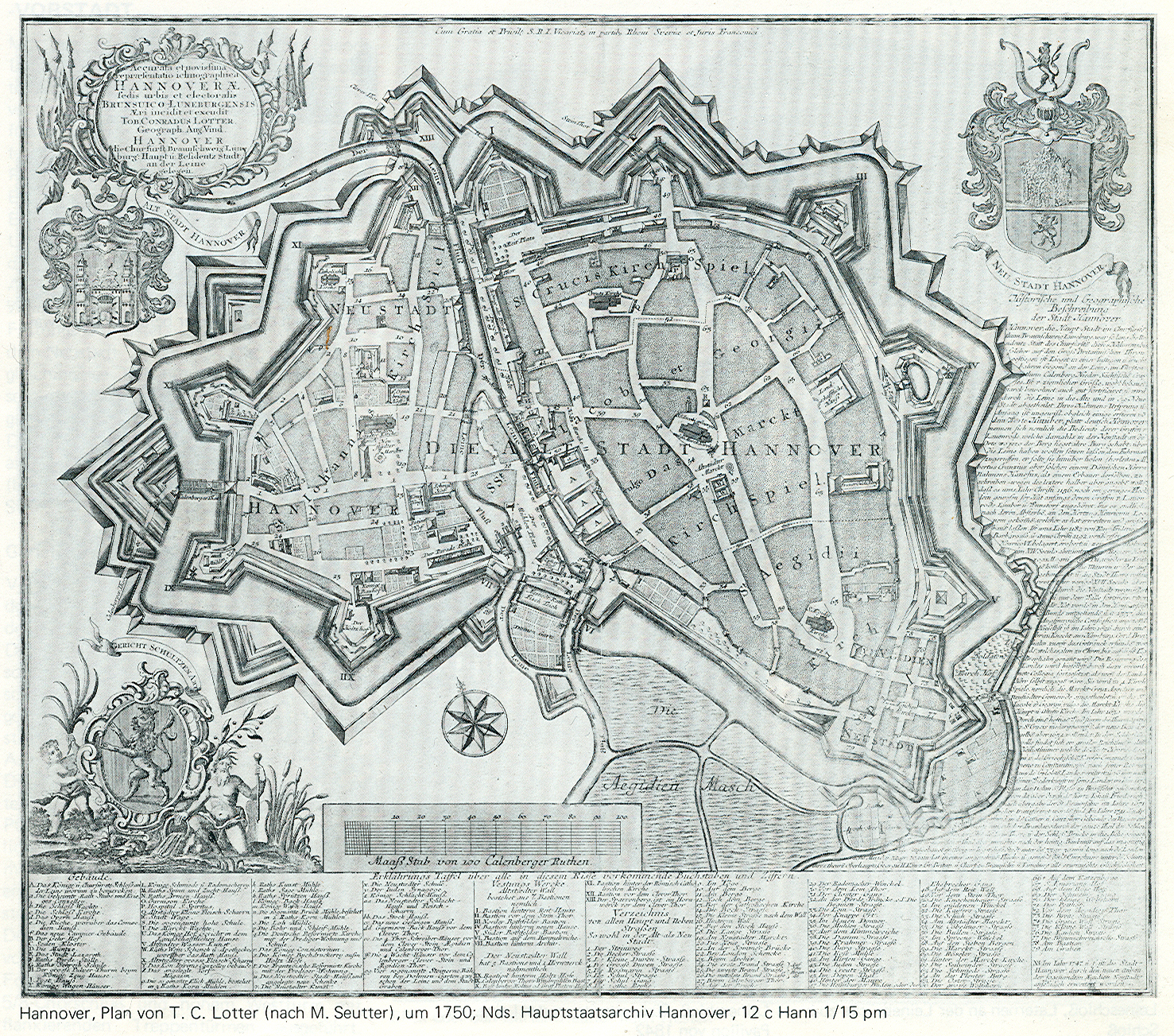 Map of of the cities of Hanover (with the new builded Aegidienneustadt in the south-east) and Calenberger Neustadt.